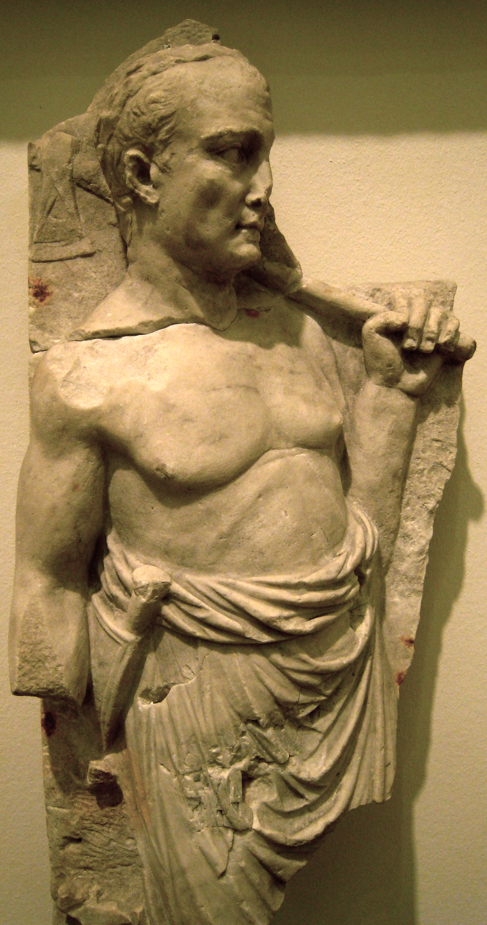 Sacrificial attendant (victimarius or popa) with axe for killing the animal. Marble, Carthage c. 50-150 AD.